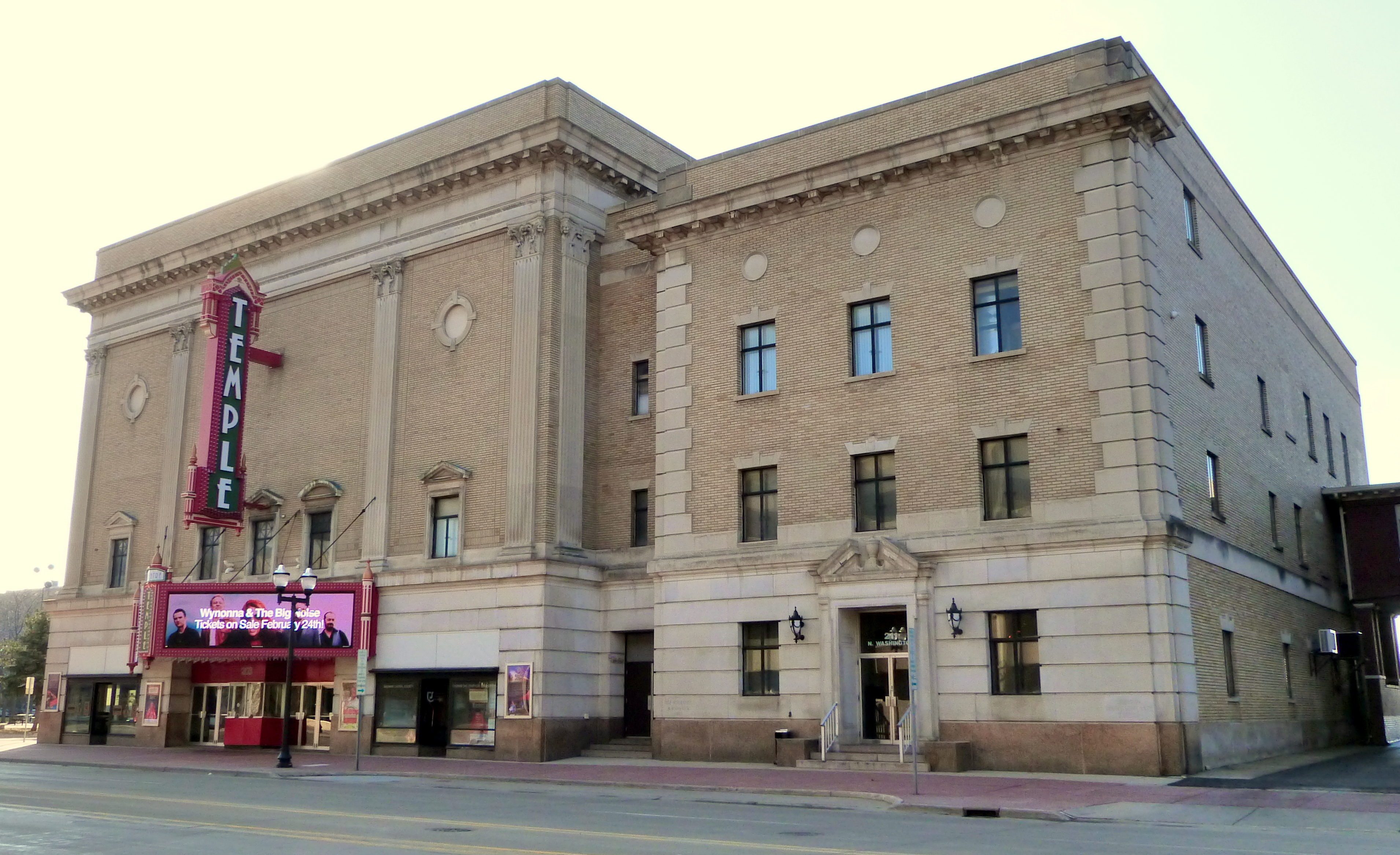 The historic Temple Theater and adjoining Masonic temple building (built 1926), located at 201–211 North Washington Avenue in Saginaw, Michigan, United States, is listed as a contributing resource in the East Saginaw Historic Business District. The historic district is listed on the U.S. National Register of Historic Places.